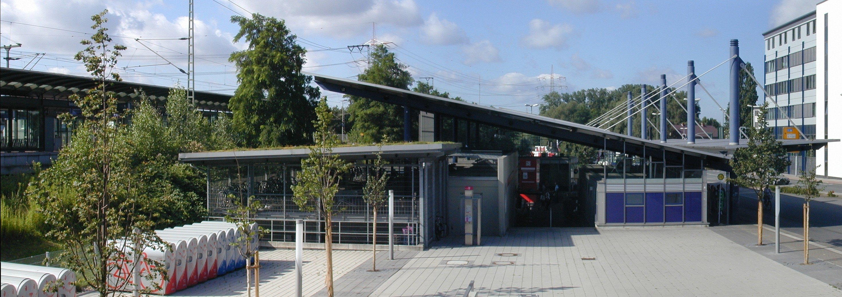 Bottrop HBF This panoramic image was created with Autostitch. Stitched images may differ from reality.